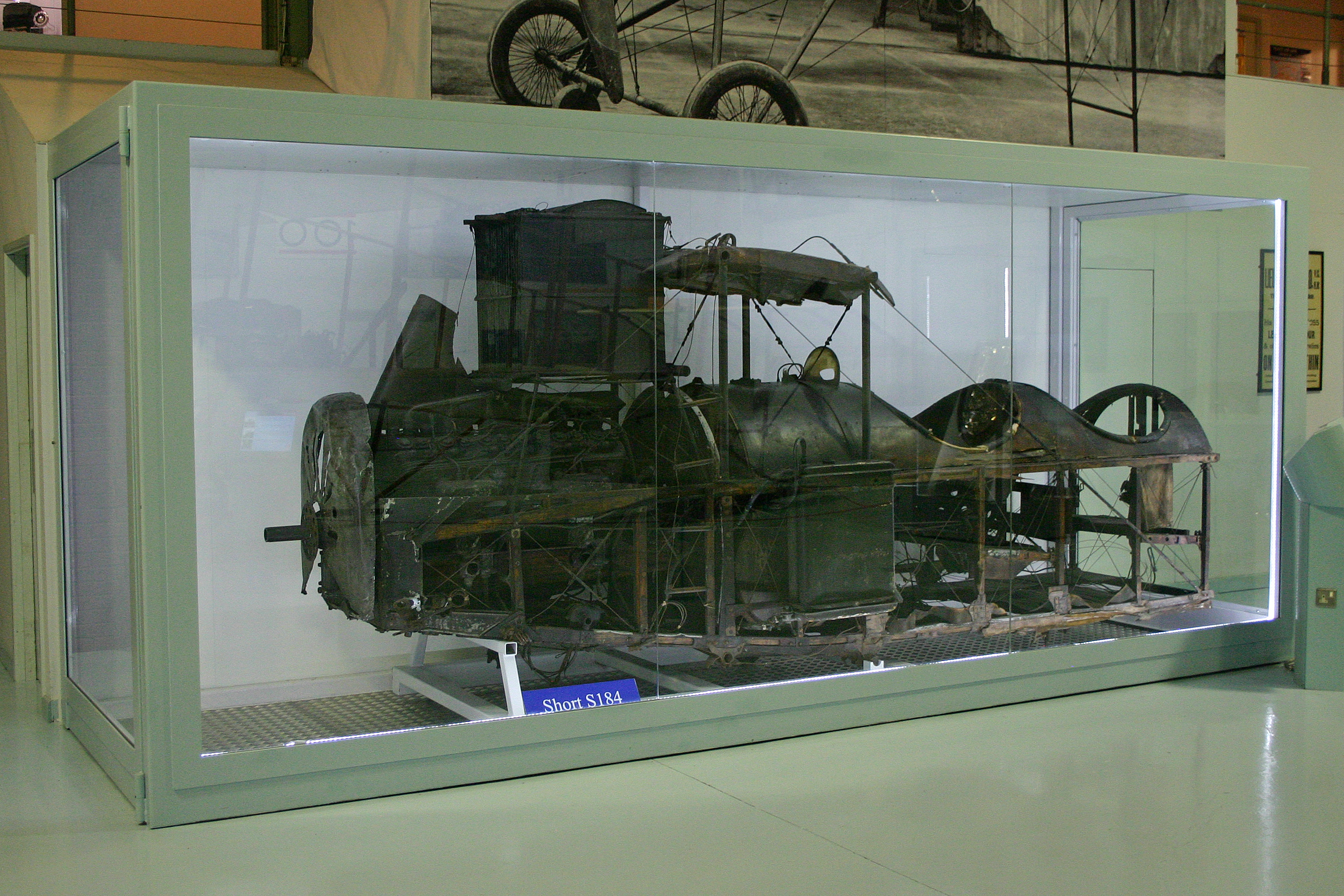 Flew in Battle of Jutland in 1916. Forward fuselage is all that remains after aeroplane was damaged during a bombing raid in 1940. Now preserved in a glass case as part of the '100 Years of Naval Aviation' exhibition. FAA Museum Yeovilton.